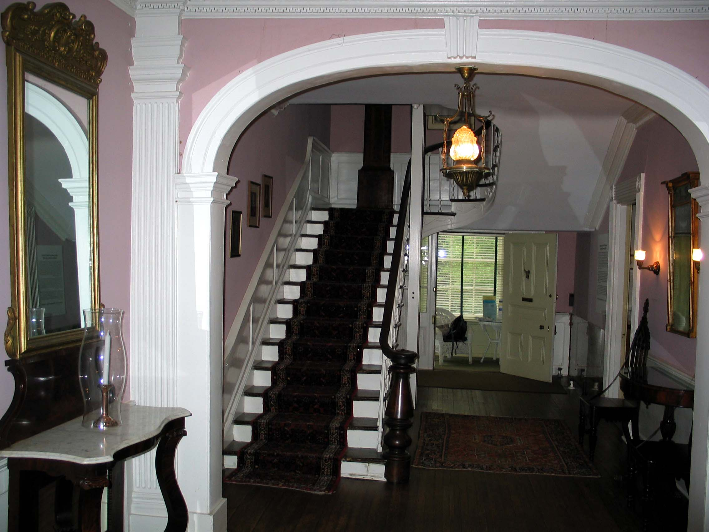 Front entry way of "Lee-Fendall House", Alexandria, Virginia. Photo taken by downloader on trip to Alexandria in 2004.